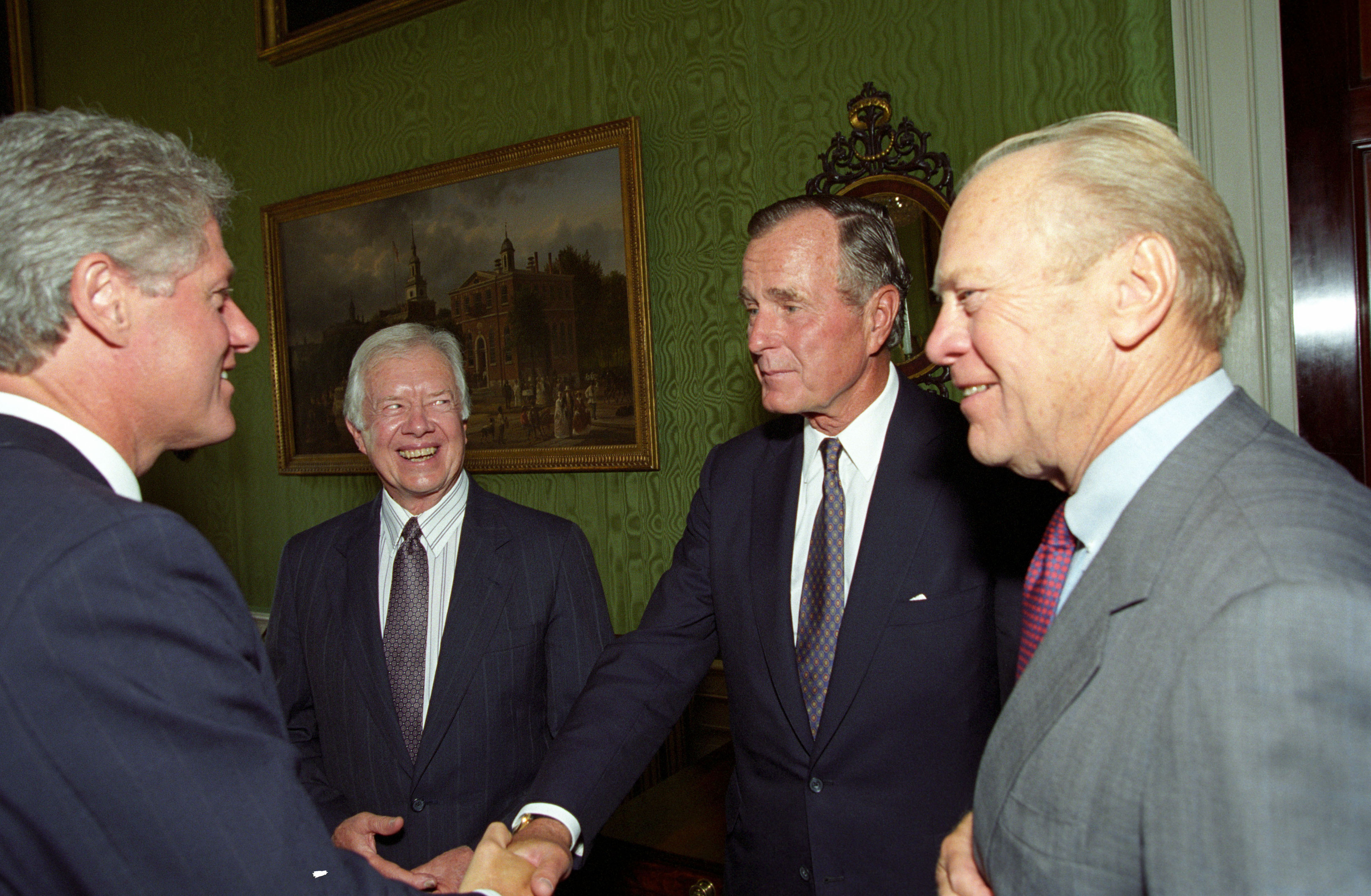 President Clinton in the Green Room with Former Presidents George H.W. Bush, Jimmy Carter and Gerald Ford before their departure from the White House